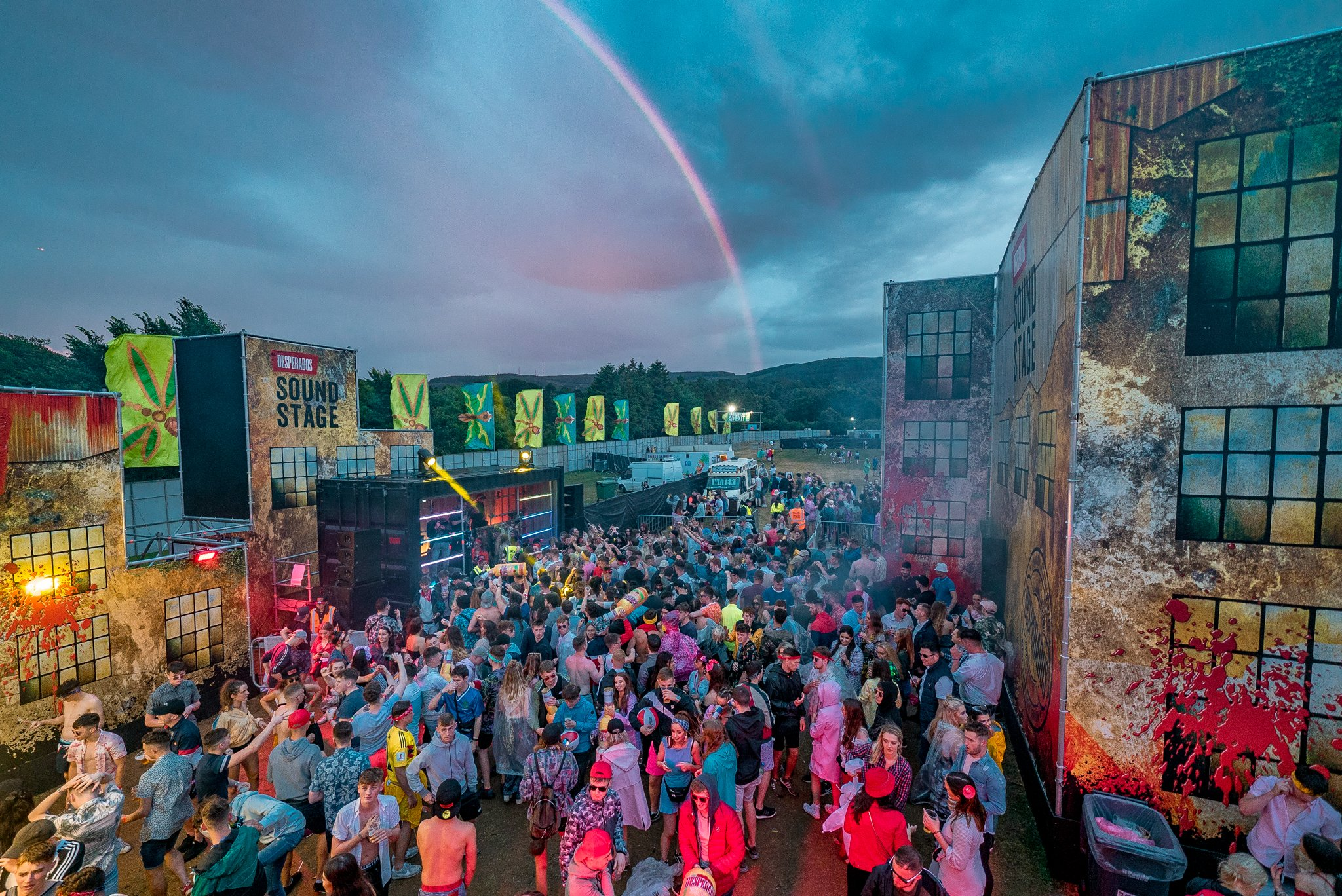 The Desperados Sound Stage at Longitude Festival 2018 crowded by festival goers.